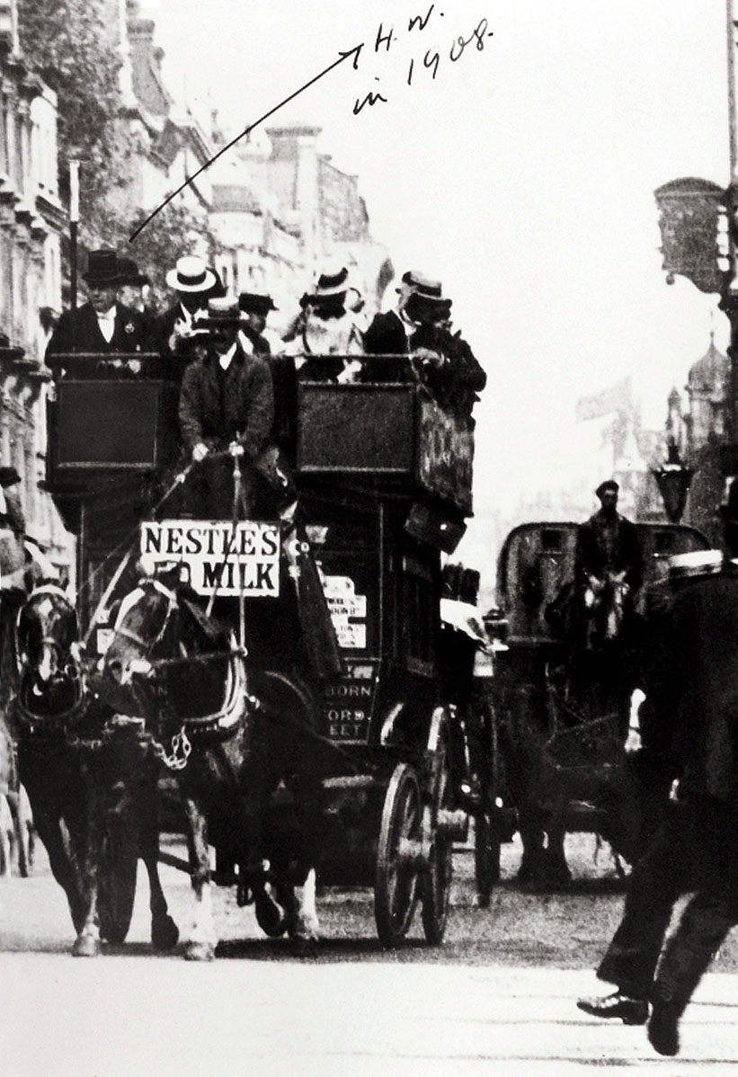 Hans Wilsdorf Rolex Founder London England 1908 Omnibus